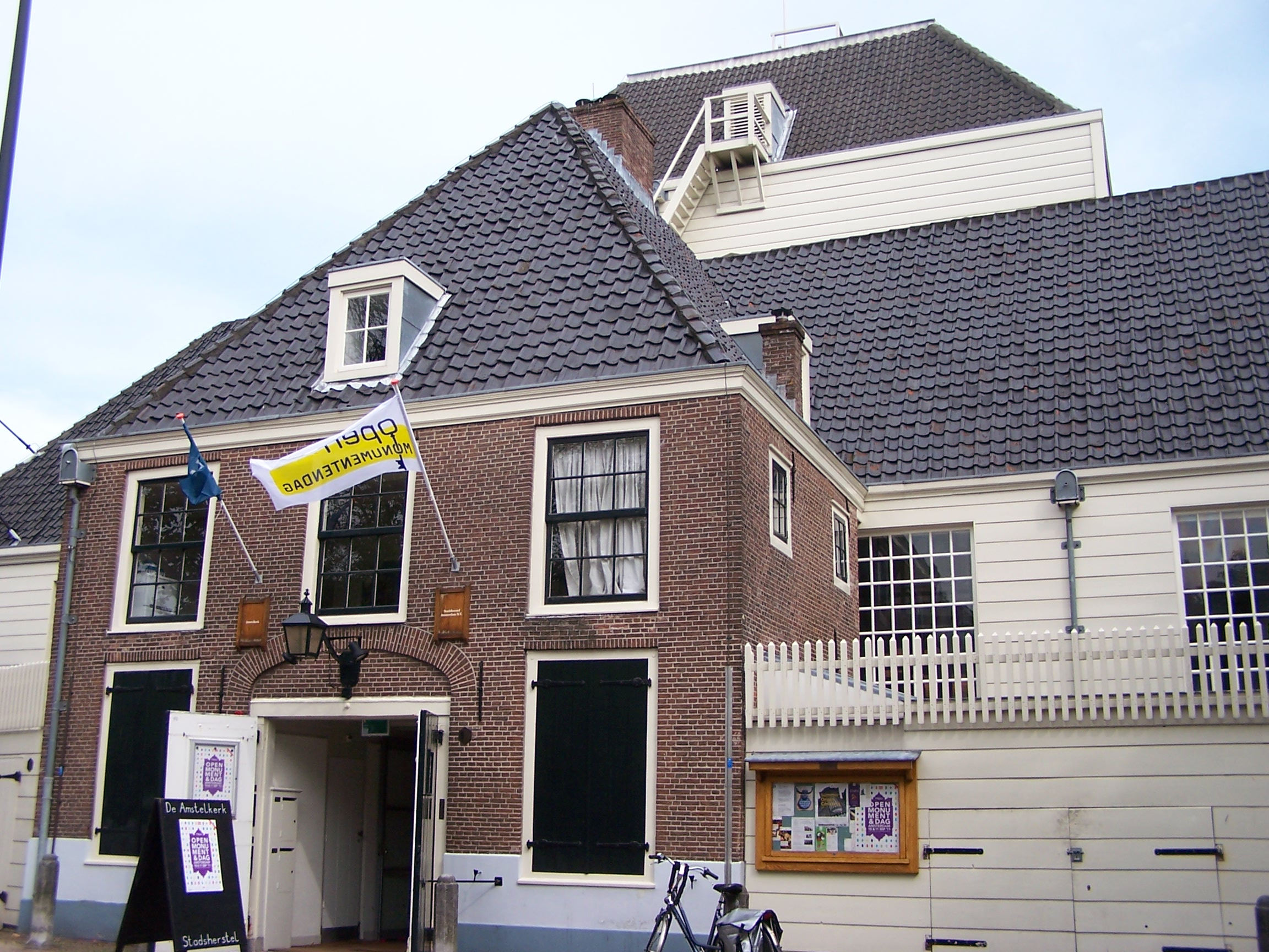 Amstelkerk, entrance